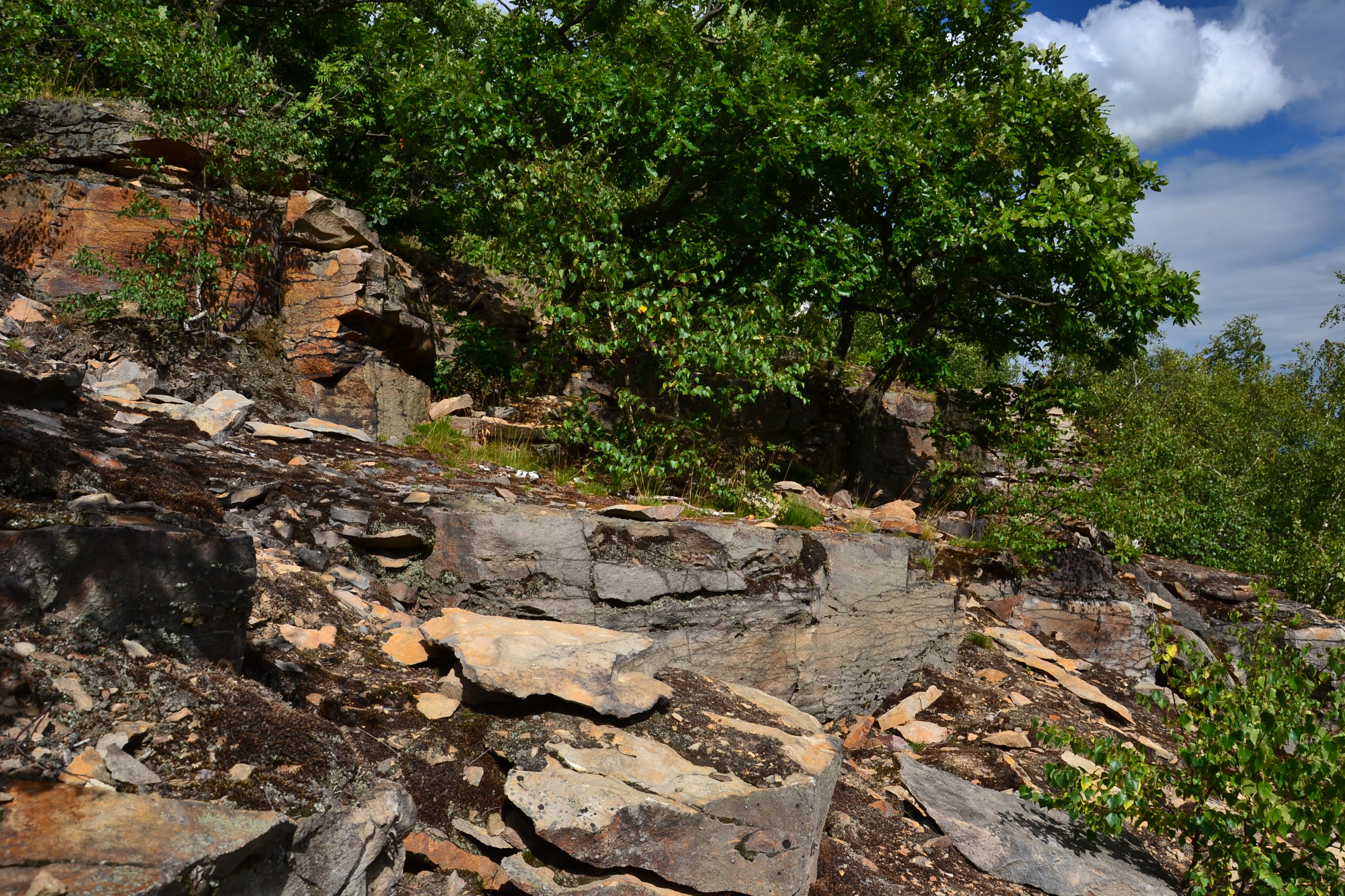 Natural monument Hradiště u Černovic in Chomutov District, Czech Republic